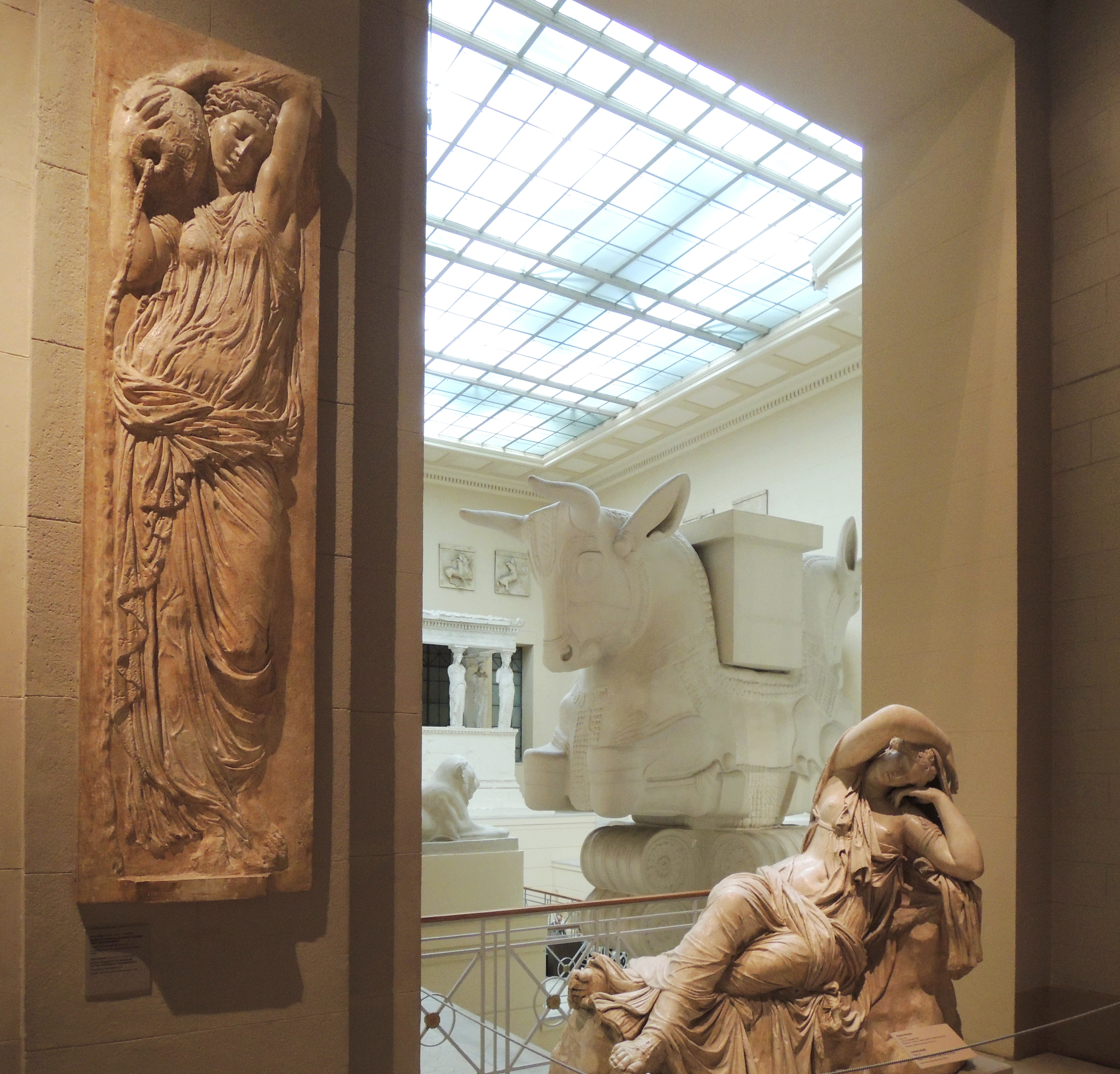 Fontaine des Innocents - replica in Pushkin museum